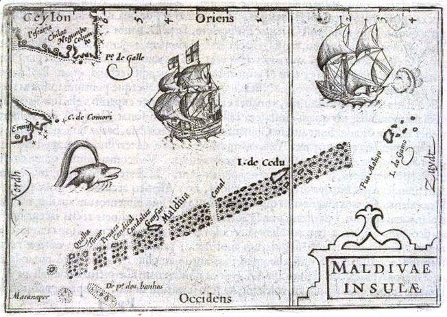 Antique map of Maldives produced by Bertius in the Year 1589AD. Issued in MiddleBurg Netherlands, for the Dutch VOC. This version was Published in 1602 in latin.